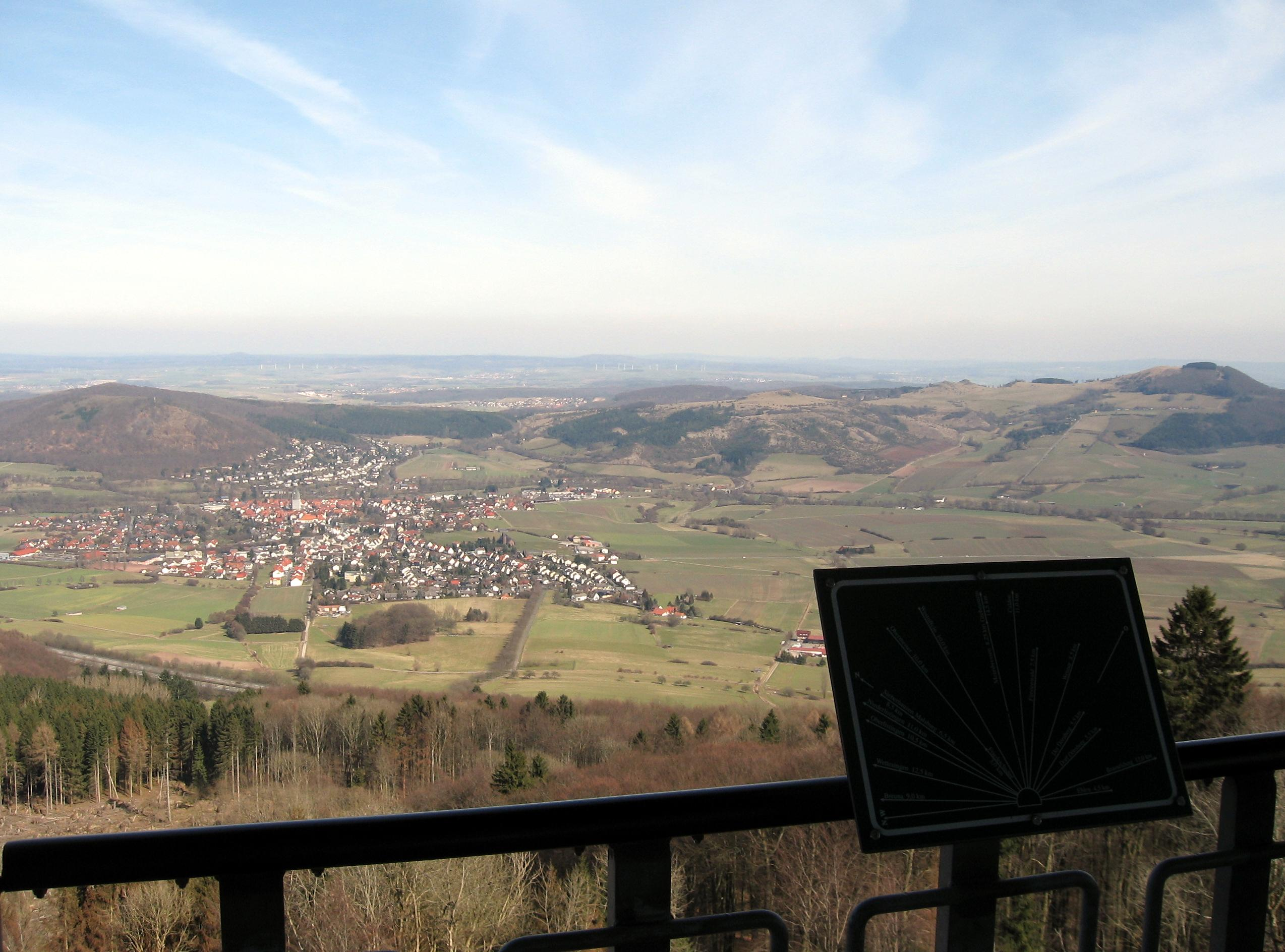 Germany / Hesse / View from the tower on the great bear mountain to Zierenberg